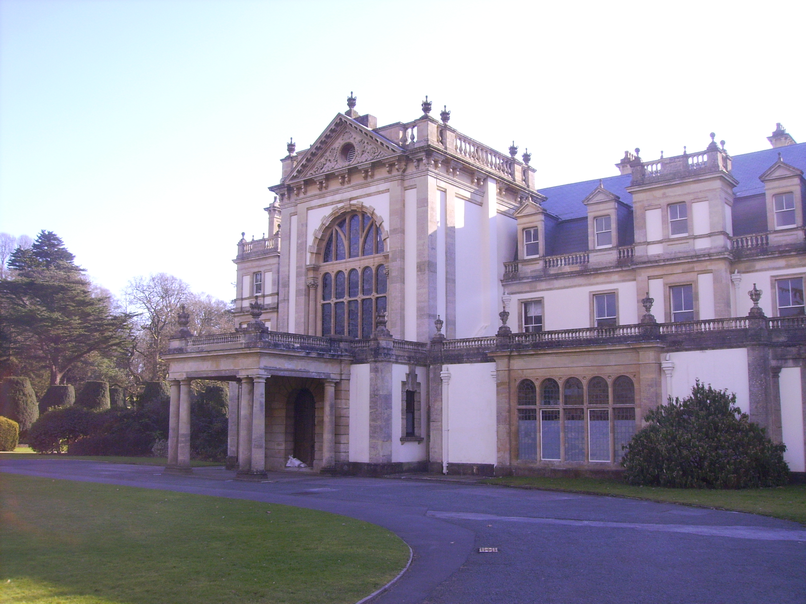 The North front of Dyffryn House, Vale of Glanorgan, Wales. Showing stained glass front window and Porte-cochere